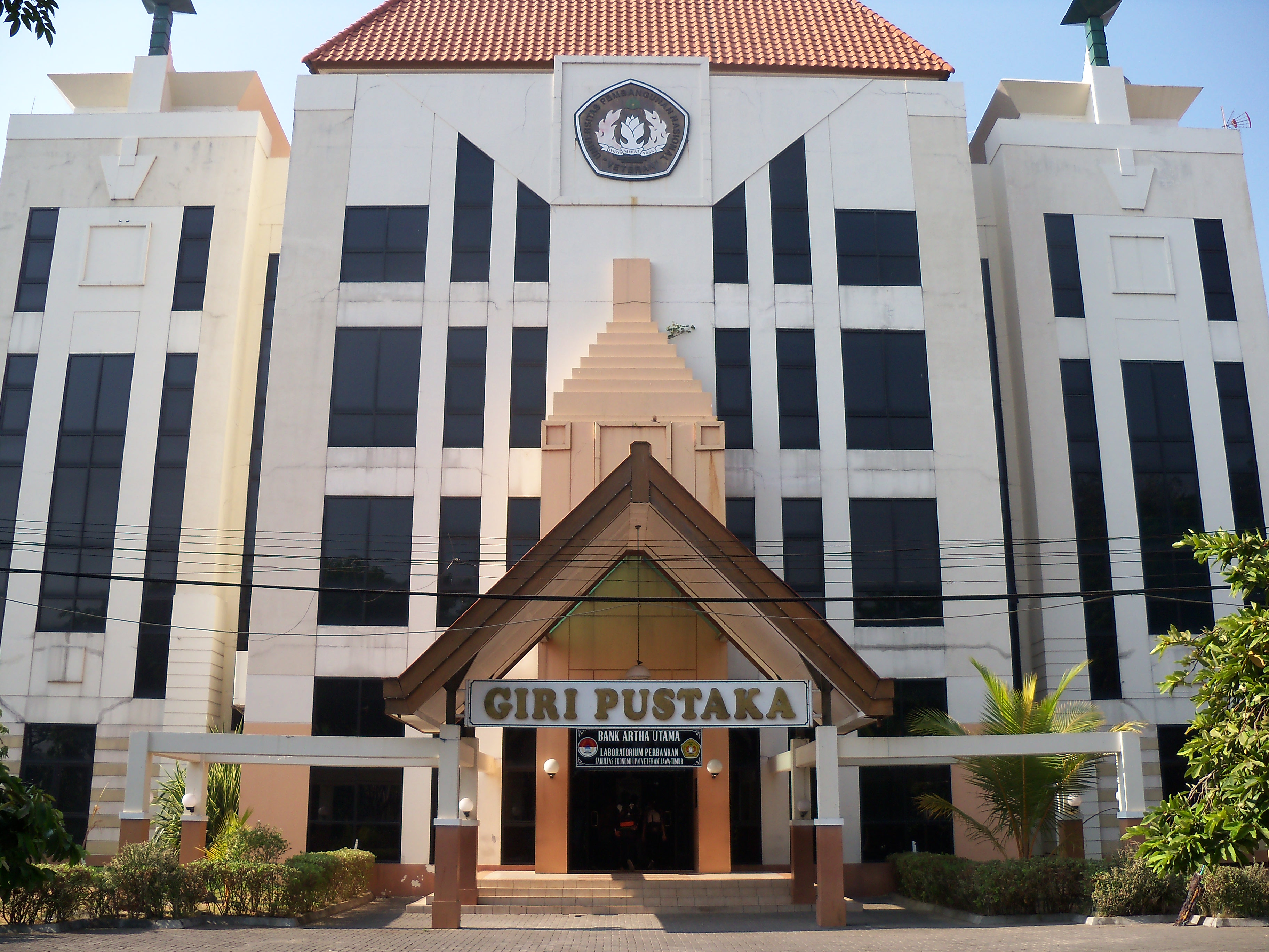 Library of UPN Veteran East Java, Indonesia